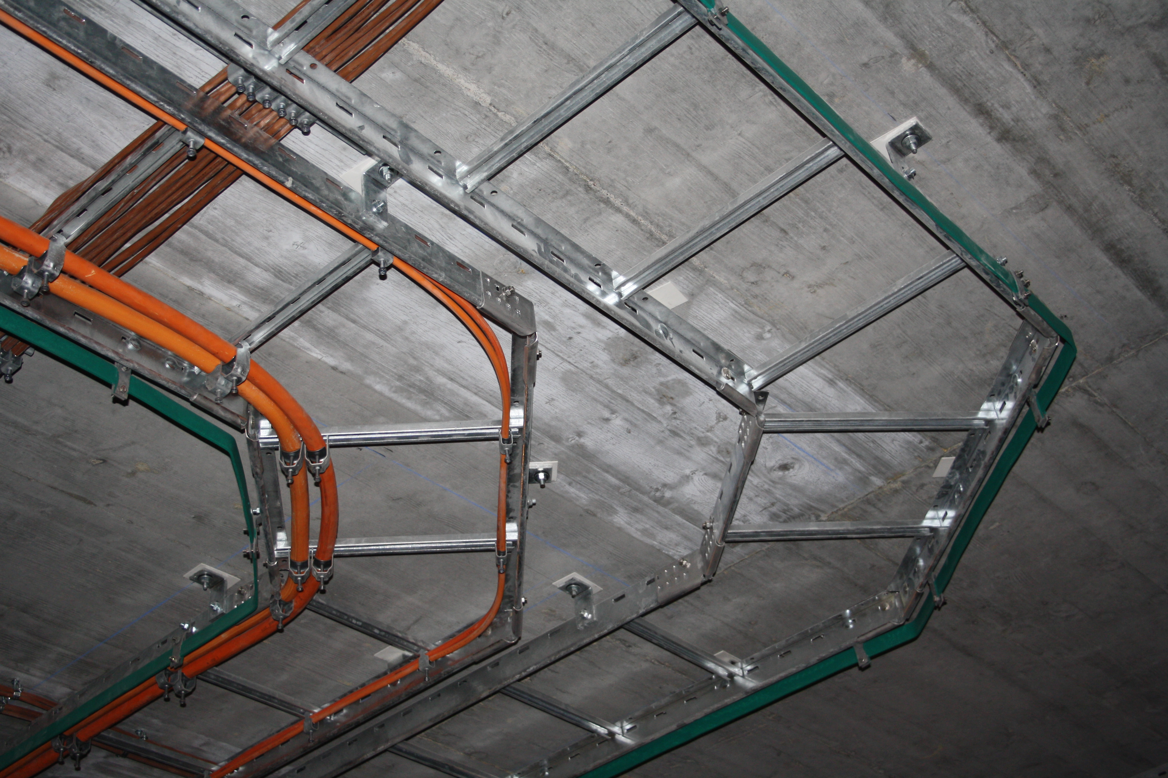 Cable ladders mounted on the ceiling